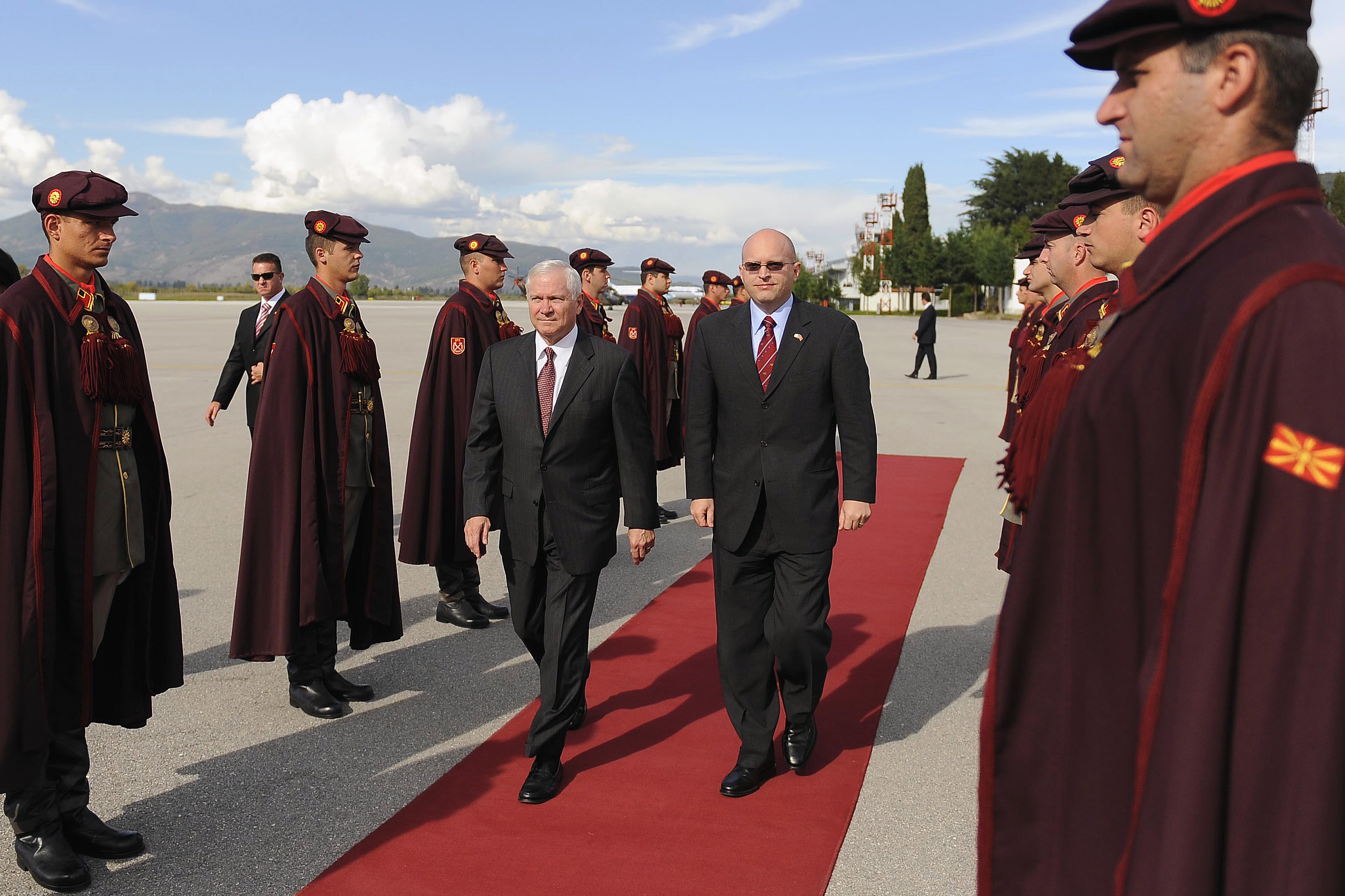 U.S. Defense Secretary Robert M. Gates walks though an honor cordon of Macedonian special guardsman after attending the Southeastern European Defense Ministerial, Oct. 8, 2008, in Ohrid, Macedonia. DoD photo by U.S. Air Force Tech. Sgt. Jerry Morrison